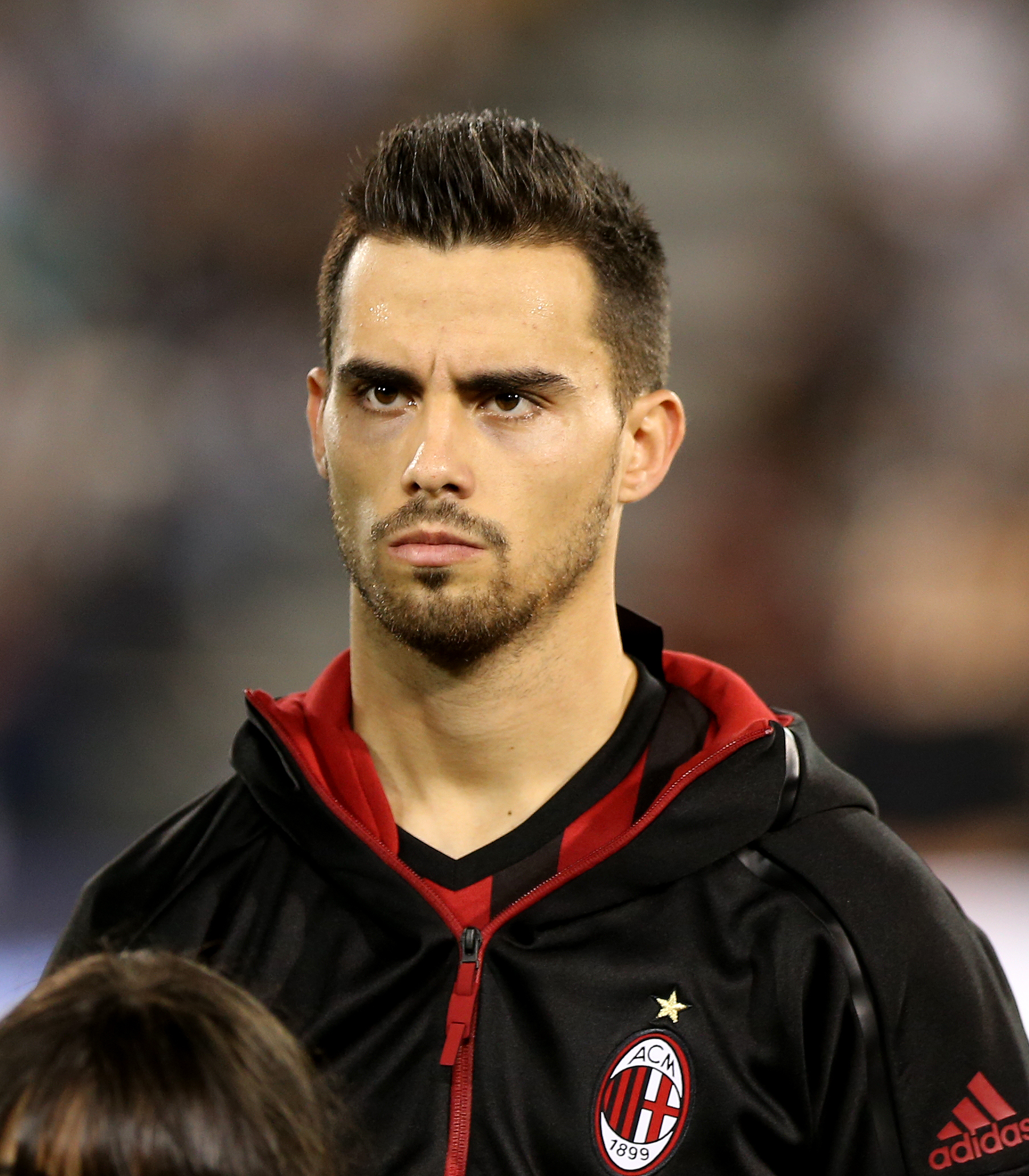 AC Milan's Spanish player Suso during their Italian Super Cup match against Juventus in Doha, Qatar. Doha Stadium Plus - Vinod Divakaran